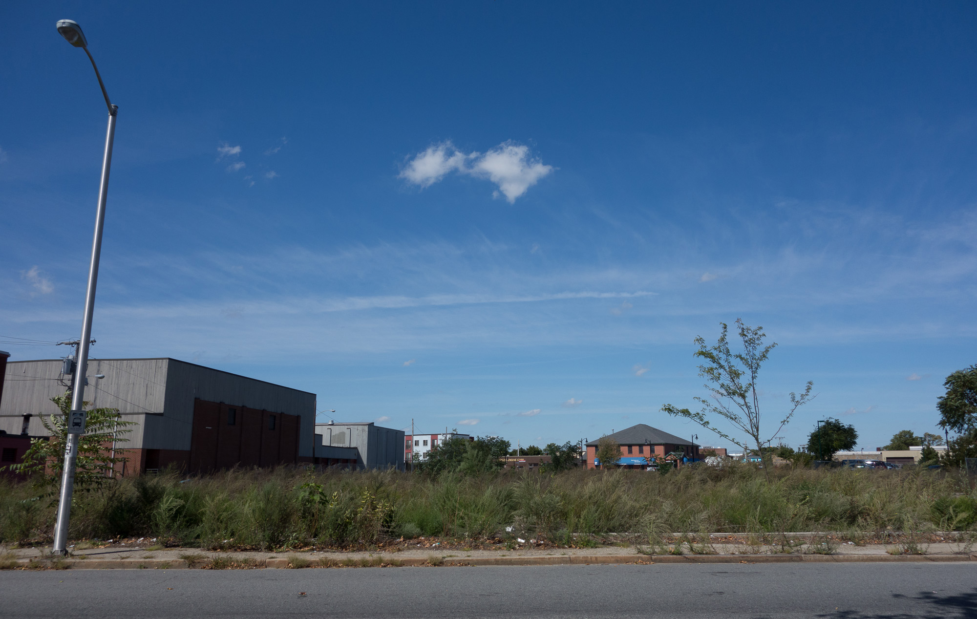 Empty lot at 93 Cranston Street, onetime home of Louttit Laundry